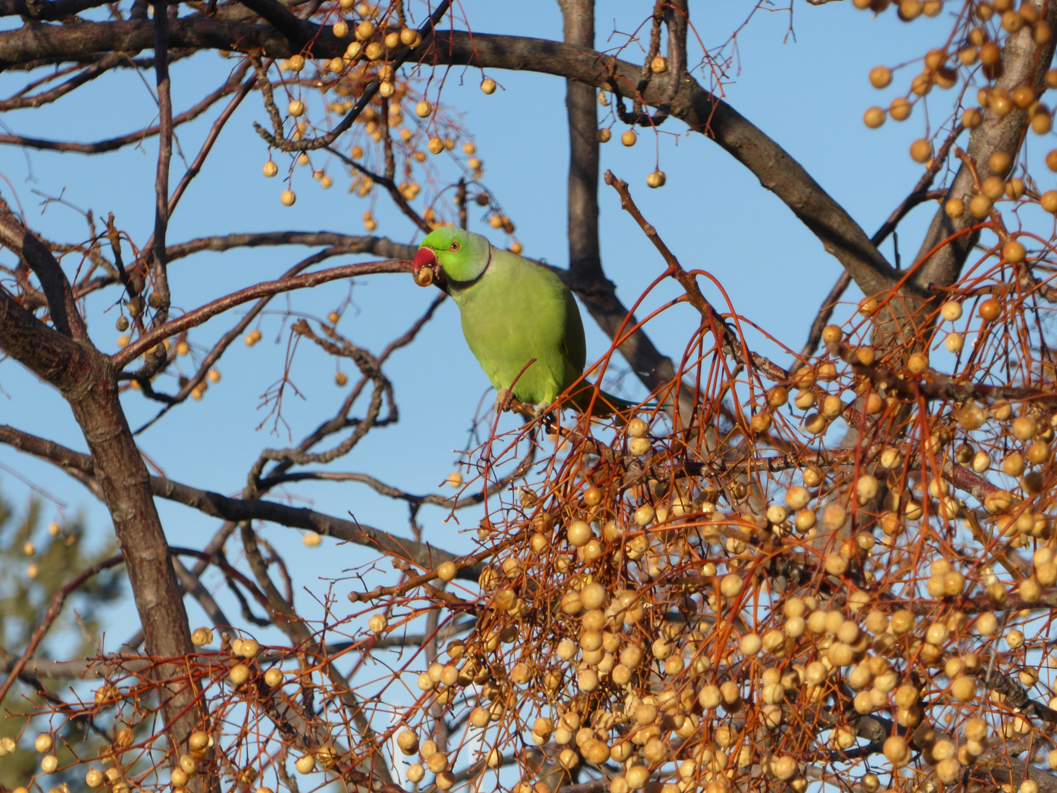 Animals of Israel